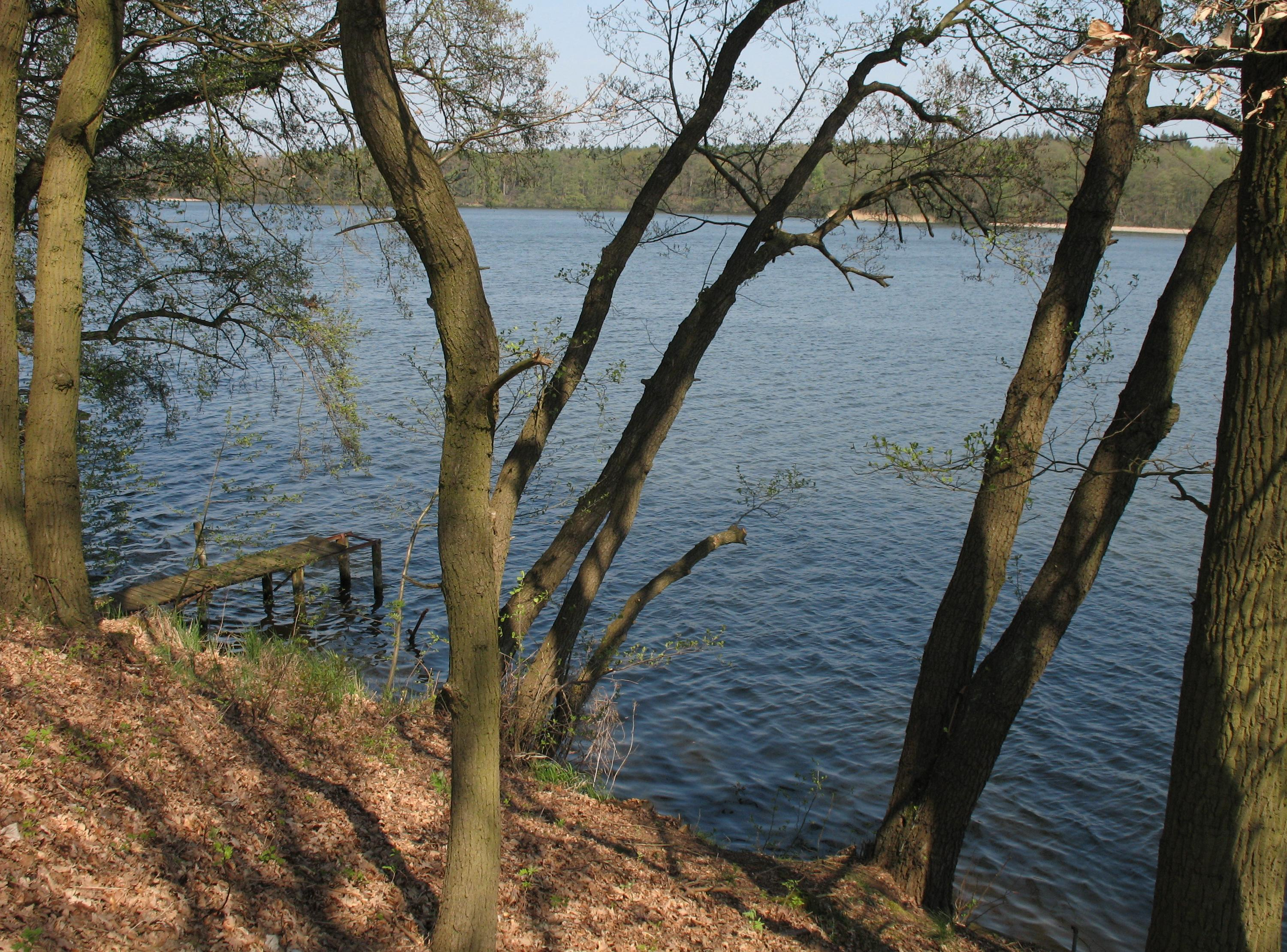 Lake in Kyritz in Brandenburg, Germany